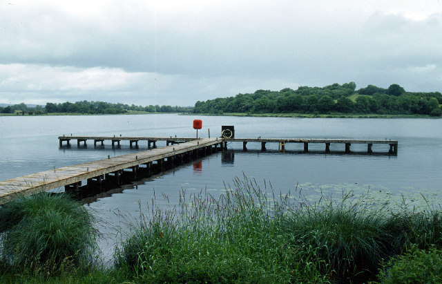 Galloon Island, Upper Lough Erne This jetty is on the eastern shore of Galloon Island.